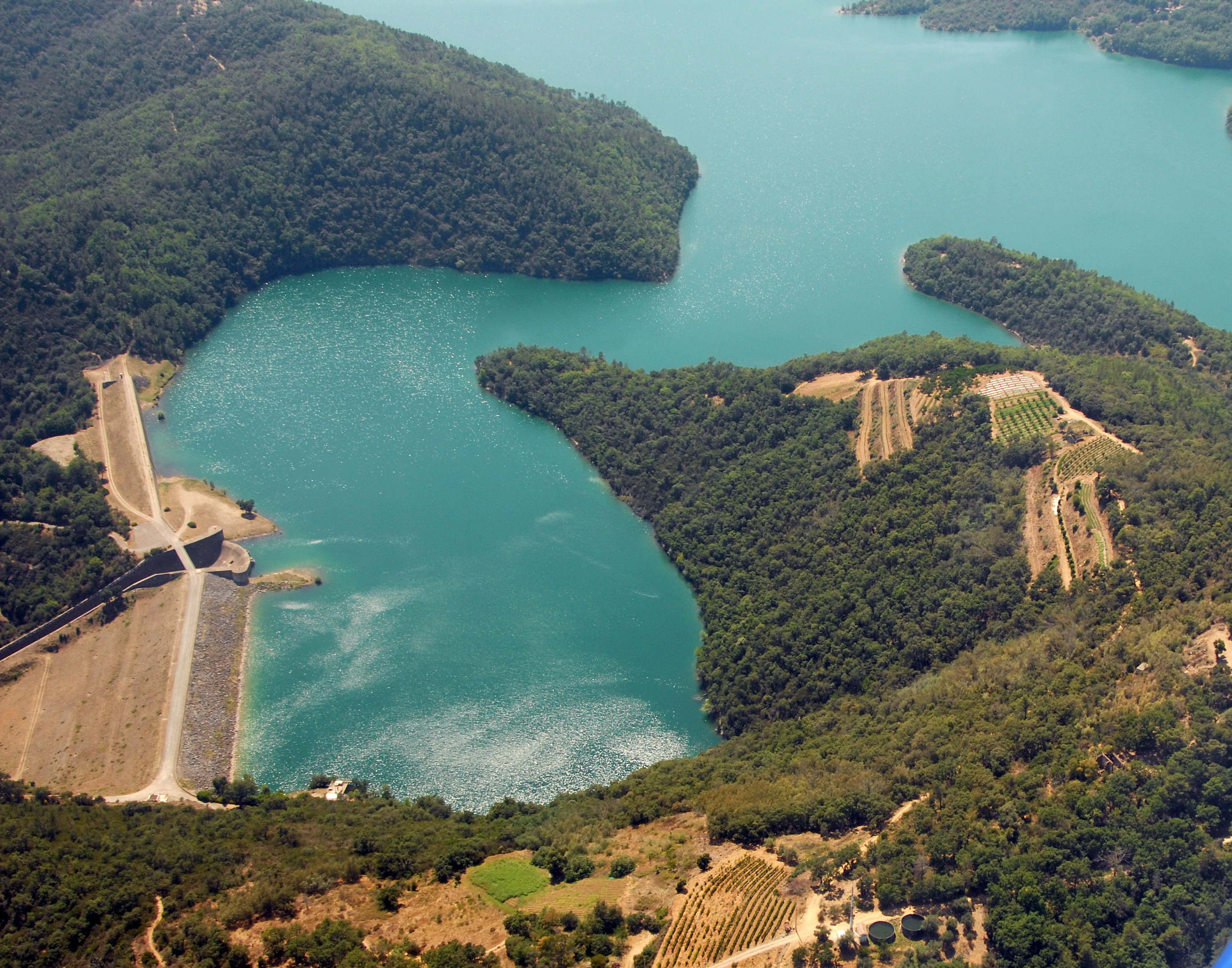 Earth dam of Tanneron, on the Saint-Cassien's lake , Var